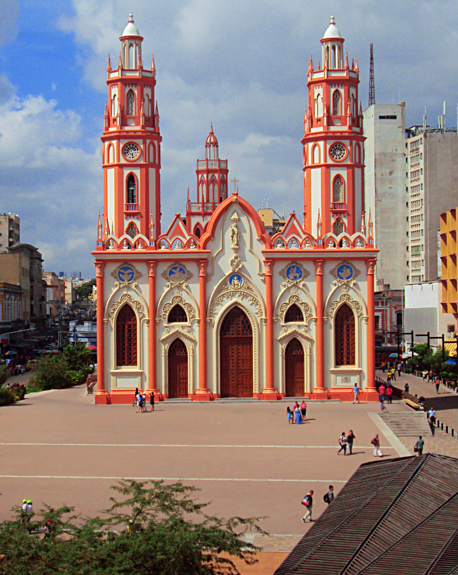 View of the Plaza de San Nicolás